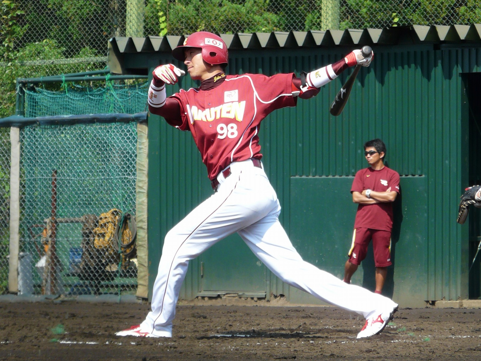 Jyobu-Morita